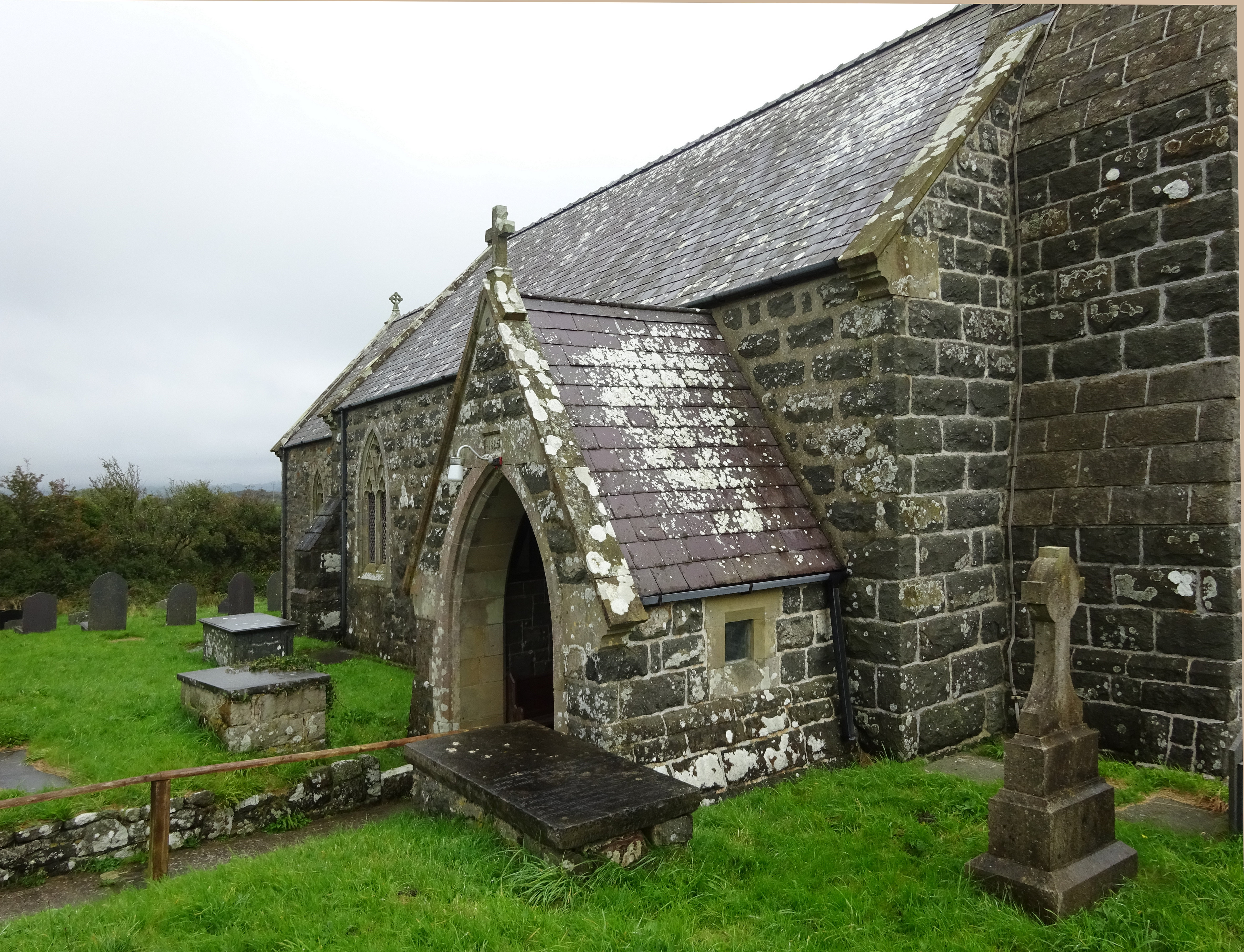 St. Beuno's Church, Botwnnog , Gwynedd, Wales. Listing Date: 19 October 1971. Grade: II. Source: Cadw. Source ID: 4252.